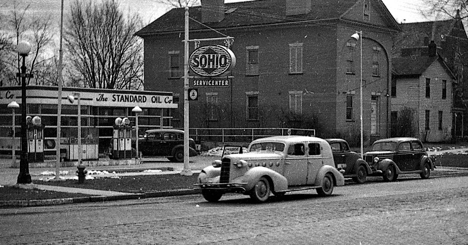 Worthington, Ohio in 1939. Looking southeast at High Street (U.S. 23) and New England. 1934 LaSalle in foreground,in front of SOHIO gas station. Taken with my Argus C2 during the school lunch break. For many years we bought our gas and tires at this Sohio station. The car on the far right is a 1936 Ford Coach. Second from right is probably a 1934 Ford Coupe.